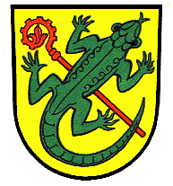 Coat of arms of Ötisheim